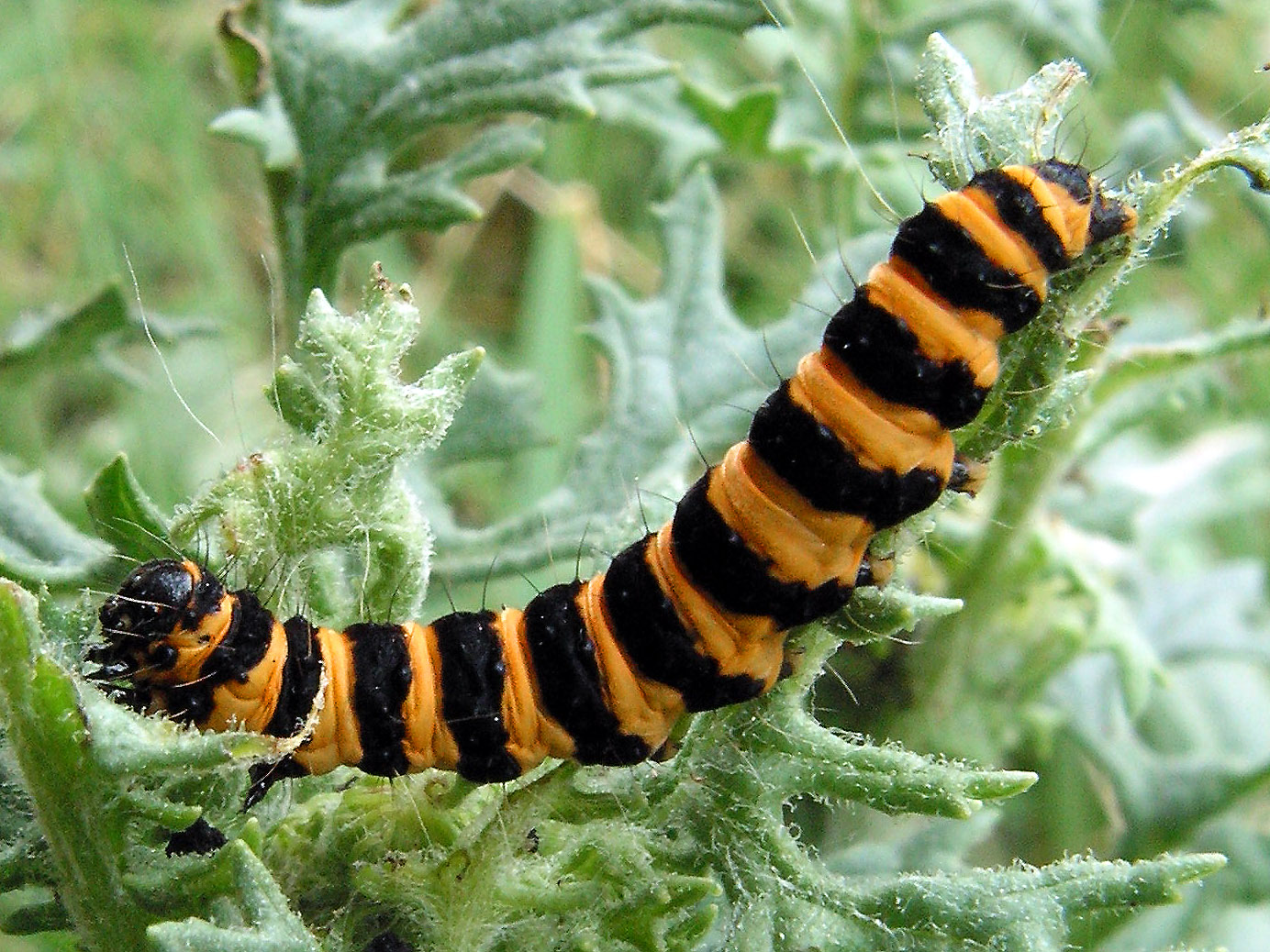 Caterpillar of the Cinnabar moth, Tyria jacobaeae on its favoriet diet of ragwort. Picture from Heemstede, The Netherlands Photo by Jens Buurgaard Nielsen